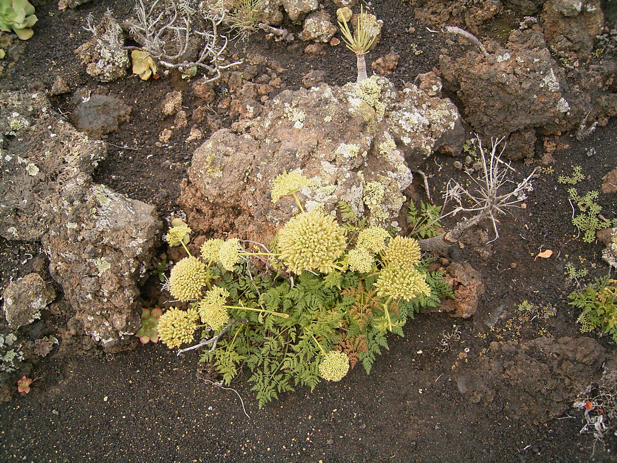 Todaroa aurea growing in Fuencaliente, La Palma, Canary Islands